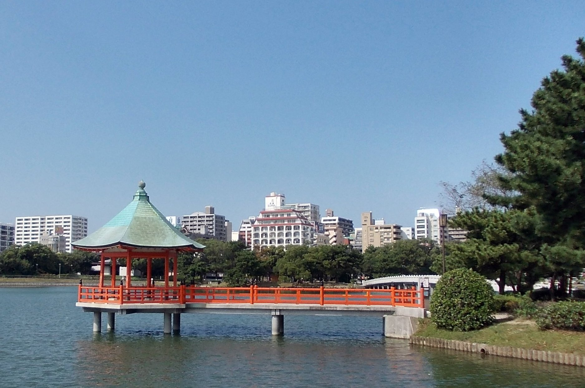 Ohori Park, Chuo-ku, Fukuoka, Japan